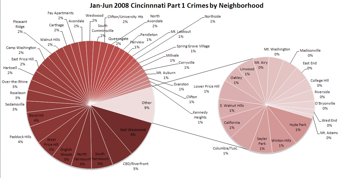 A graph showing the distribution of Part 1 crimes in Cincinnati, Ohio neighborhoods. Part 1 crimes consist of murder, rape, robbery, aggravated assault, burglary, larceny, and auto theft. In this chart East Westwood has the highest percentage of Part 1 crimes of all Cincinnati neighborhoods, while Mount Adams has the lowest percentage. Data was collected from and the pie chart was generated using Microsoft Excel 2007.